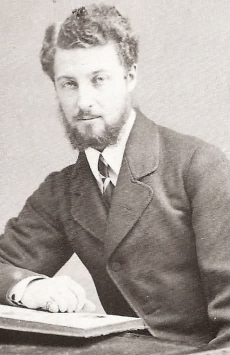 Portrait of Prince Ferdinand, Duke of Alençon